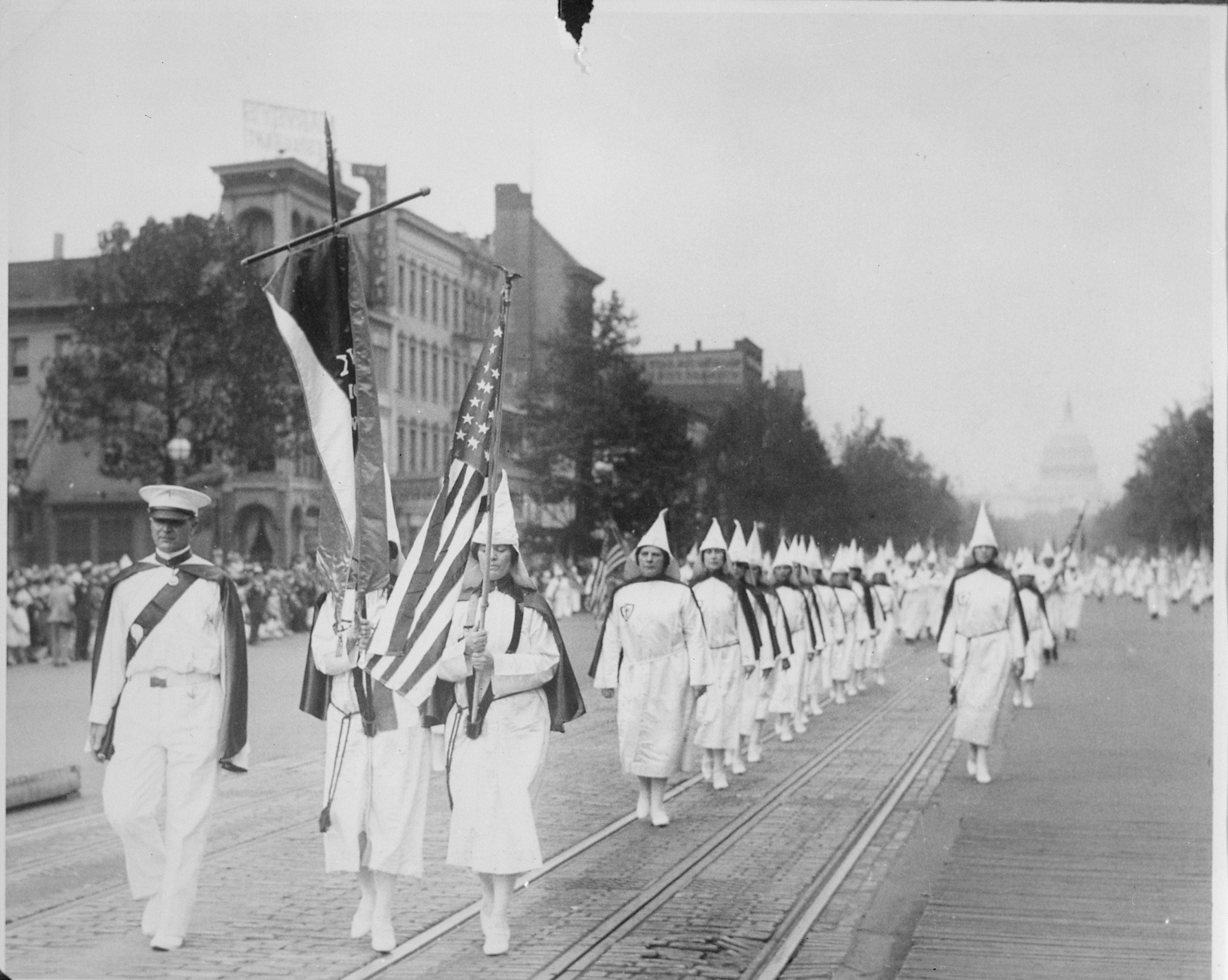 Scope and content: The Capitol in the background.